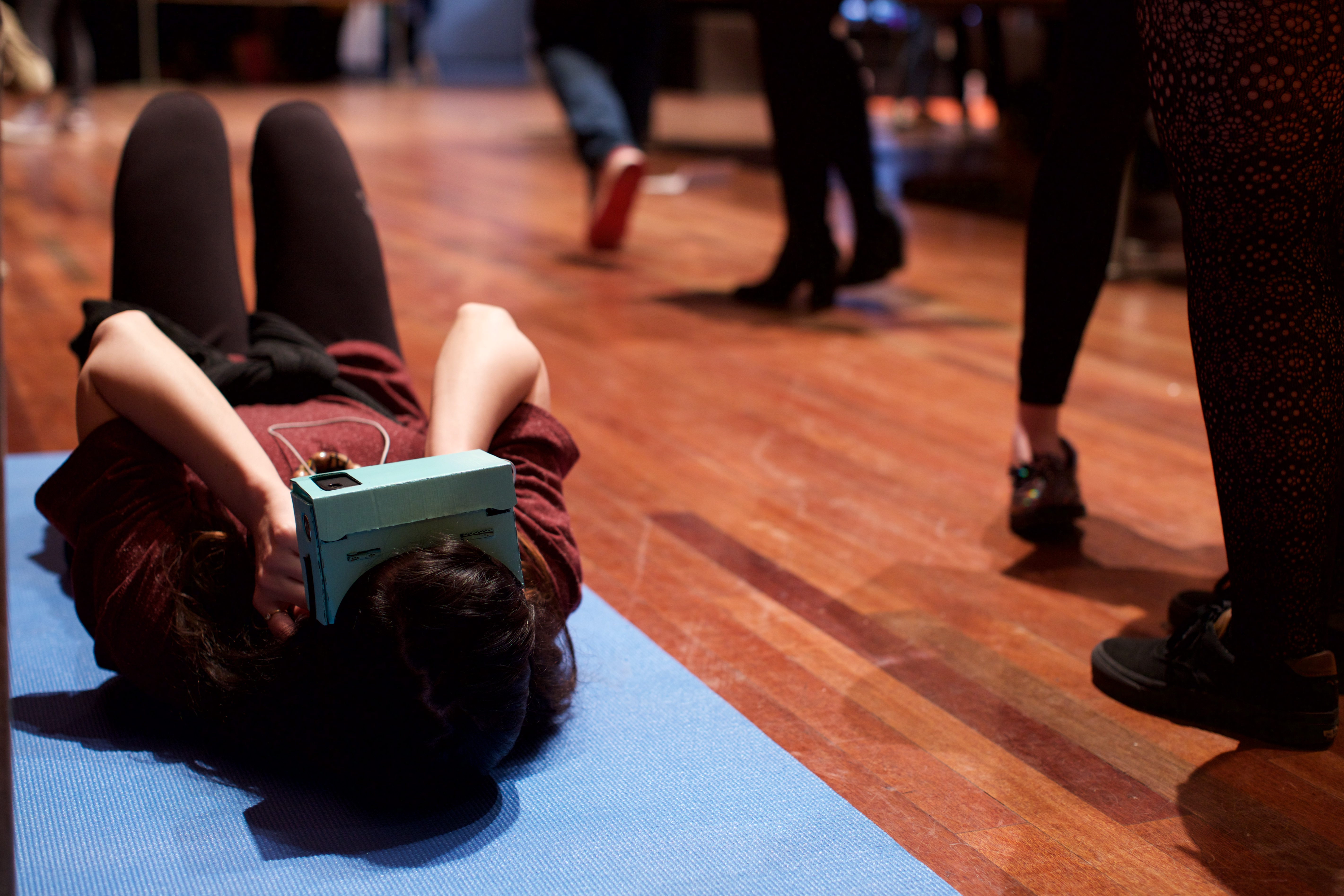 Na Tokyo, Berlijn en Brussel is de Internet Yami-ichi / Black Market naar het hart van Amsterdam gekomen. Dit fenomeen is een hoog geconcentreerde wervelwind van Internetkunst en -cultuur in de context van een markt vol producten en performances. Kunstenaars, ontwerpers, vrijdenkers en outsiders verkopen concepten en tastbare producten geplukt van en reagerend op de online wereld.